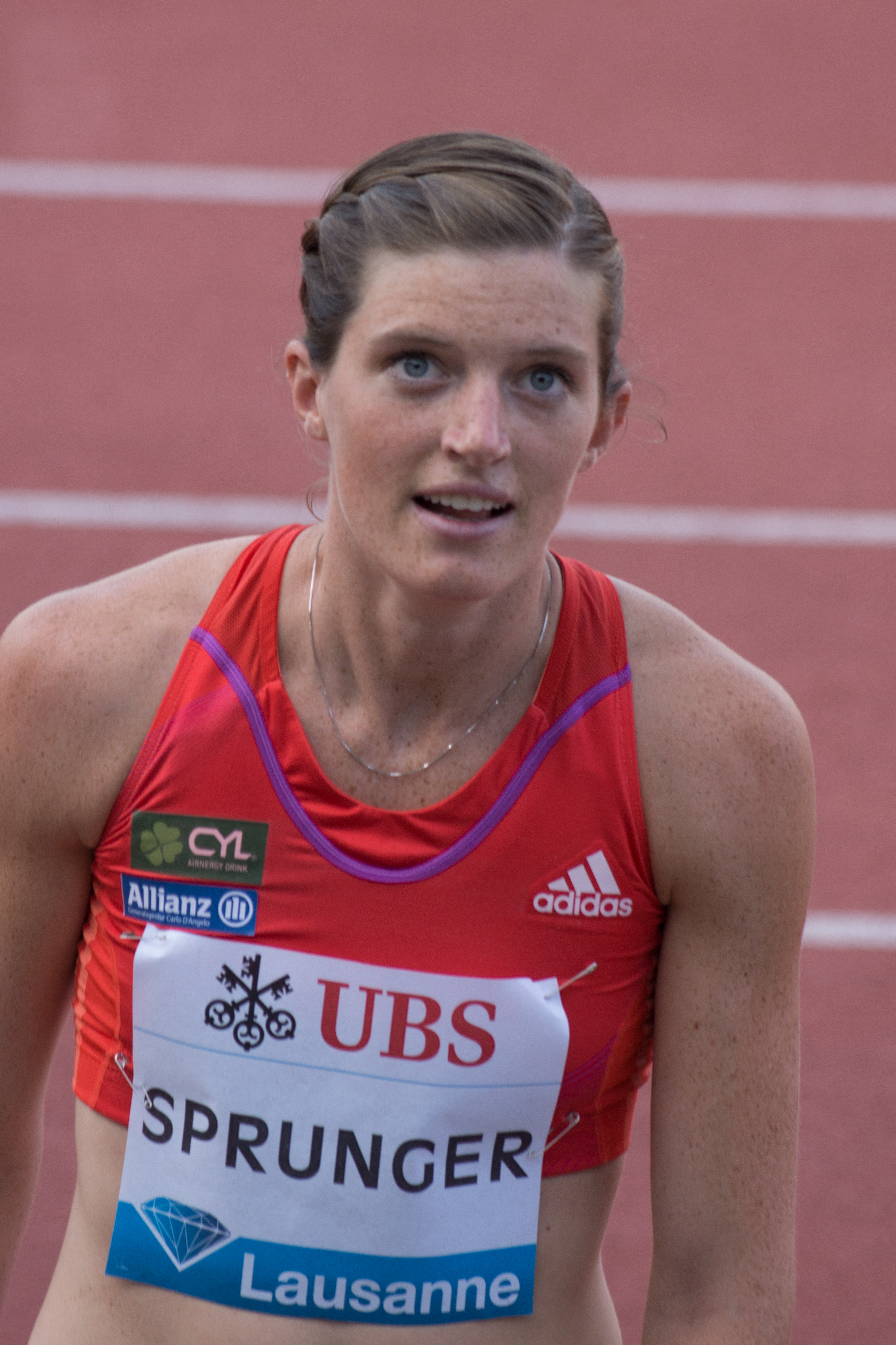 The making of this document was supported by Wikimedia CH. (Submit your project!) For all the files concerned, please see the category Supported by Wikimedia CH. Athletissima 2012